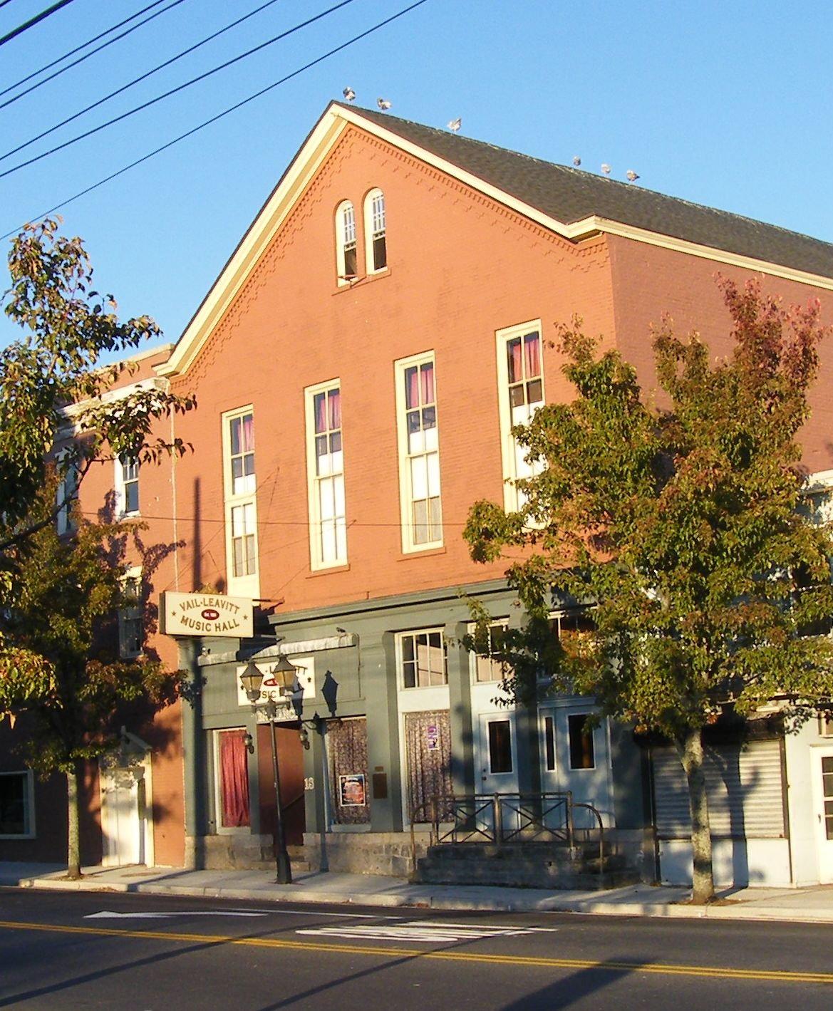 Vail Leavitt Theatre Riverhead New York